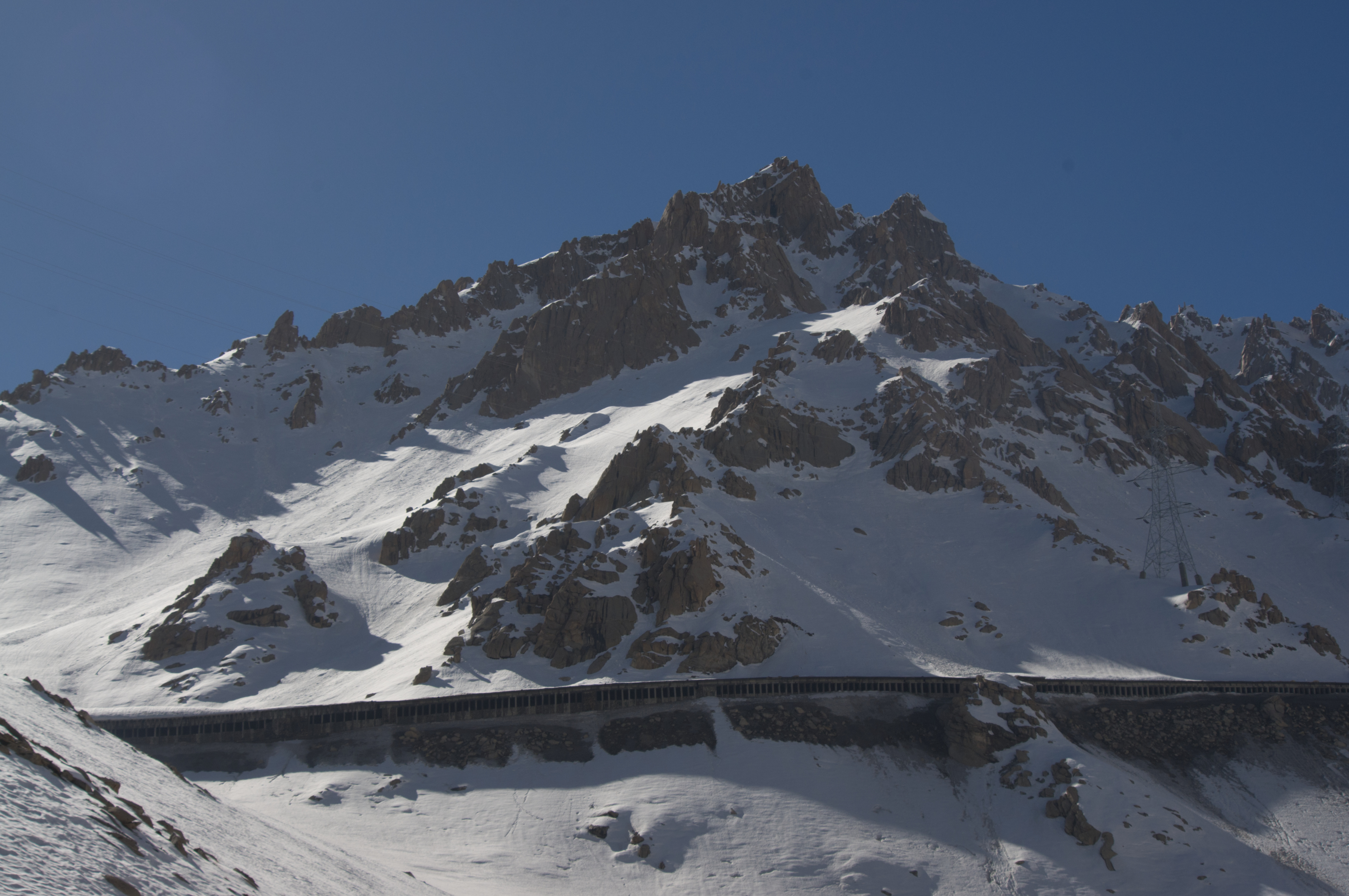 Picture of the Salang Pass, Afghanistan